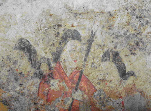 Ancient mural depicting women, painted on the west wall of Takamatsuzuka Tomb, as of March 31, 2006.